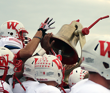 Picture of football players savoring a victory of the Monon Bell.